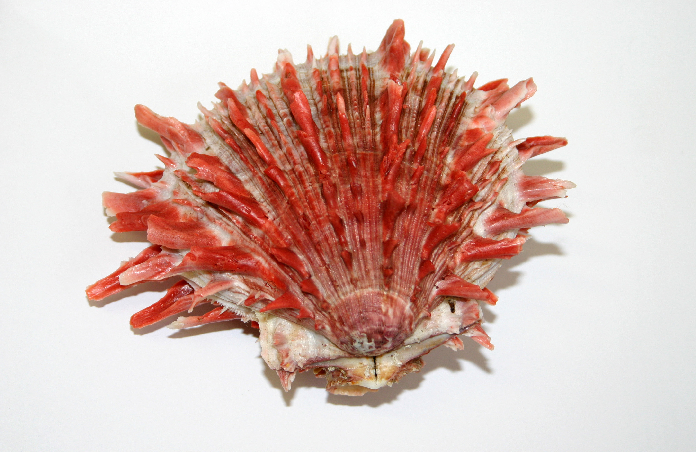 Spondylus crassisquama from the Sea of Cortez, Mexico.